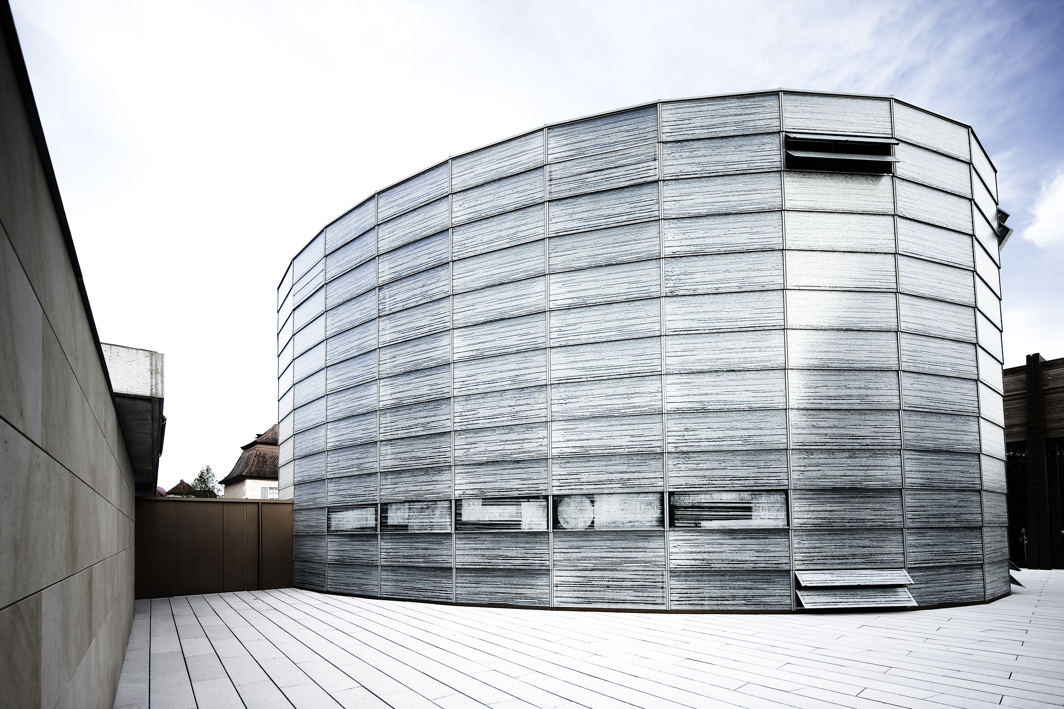 Kirche in Dietenhofen mit Glasfassade